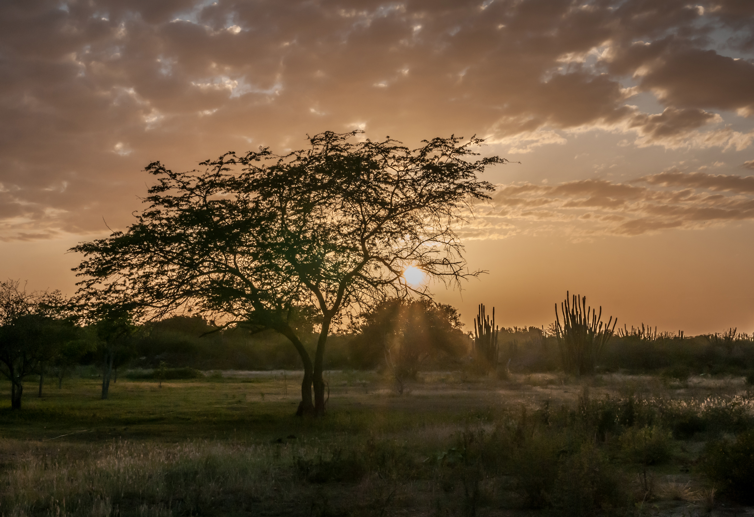 Backlit Margarita Island Sunset in Las Guevaras, Venezuela